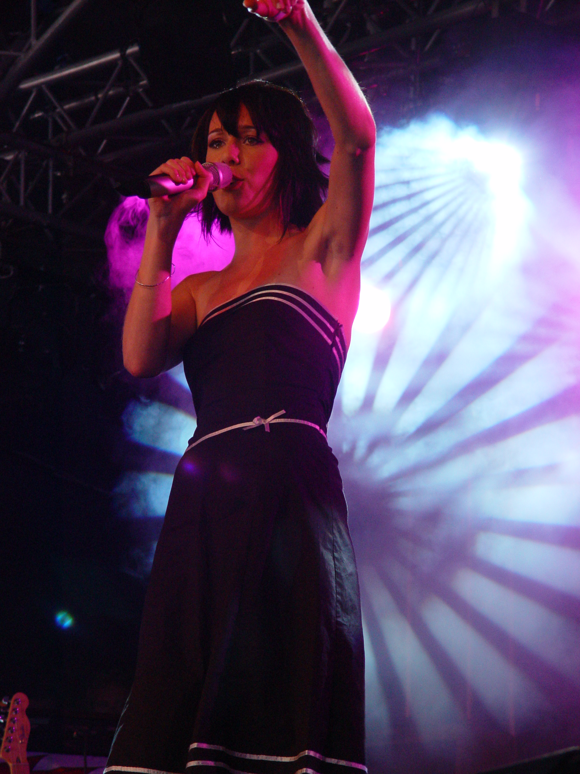 Welsh pop singer Jem singing onstage, 2005